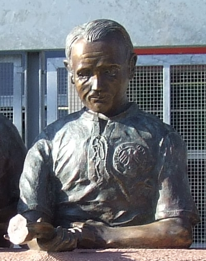 Statue of Werner Kohlmeyer in front of the Fritz-Walter-Stadion, Kaiserslautern, Germany.